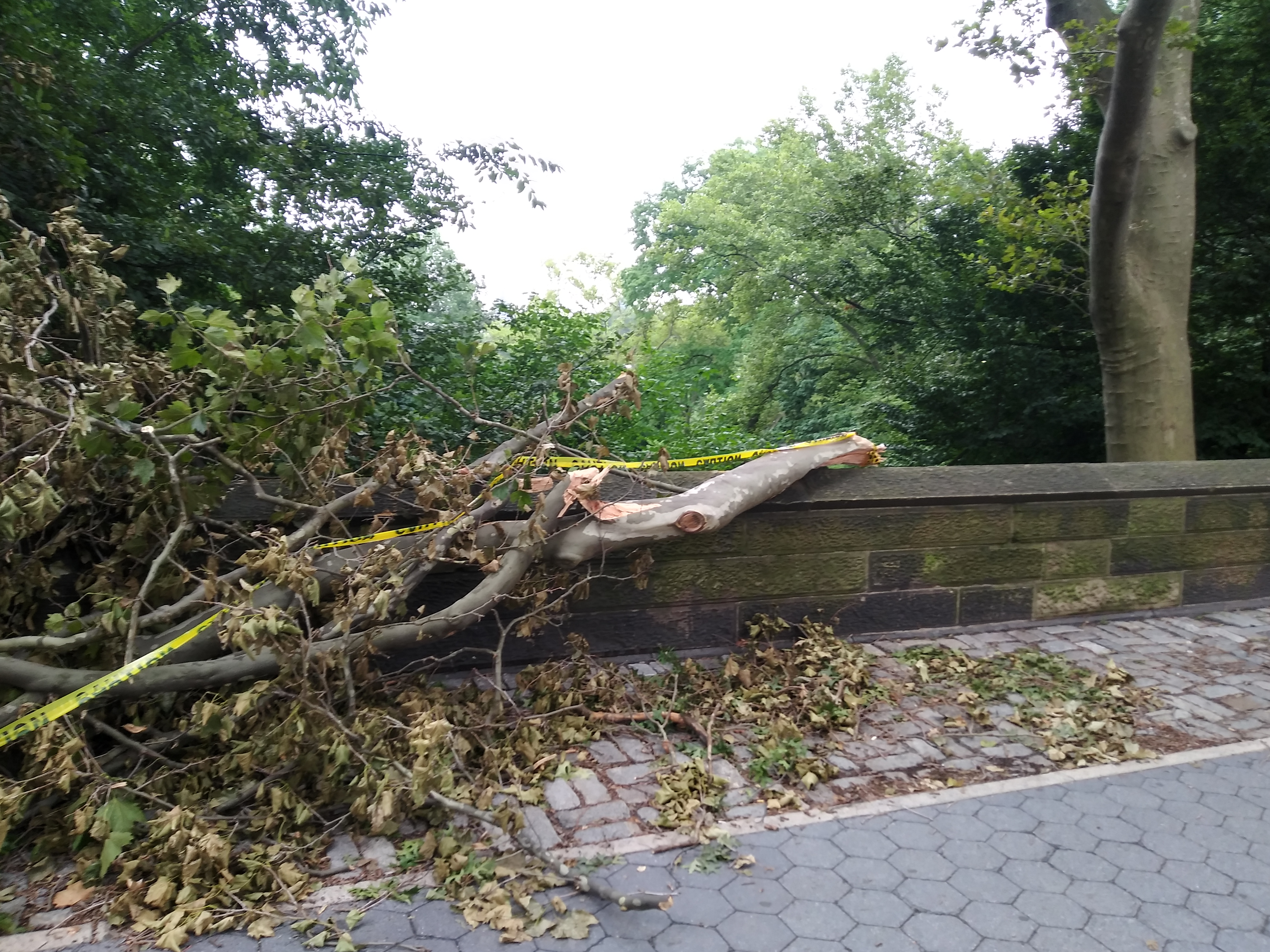 Broken bough of a Central Park tree on Central Park West days after Hurricane Isaias